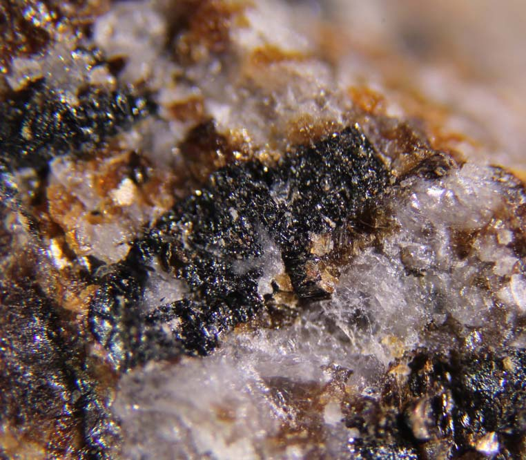 Black crystals of the rare lead mineral magnetoplumbite from Langban (Sweden).